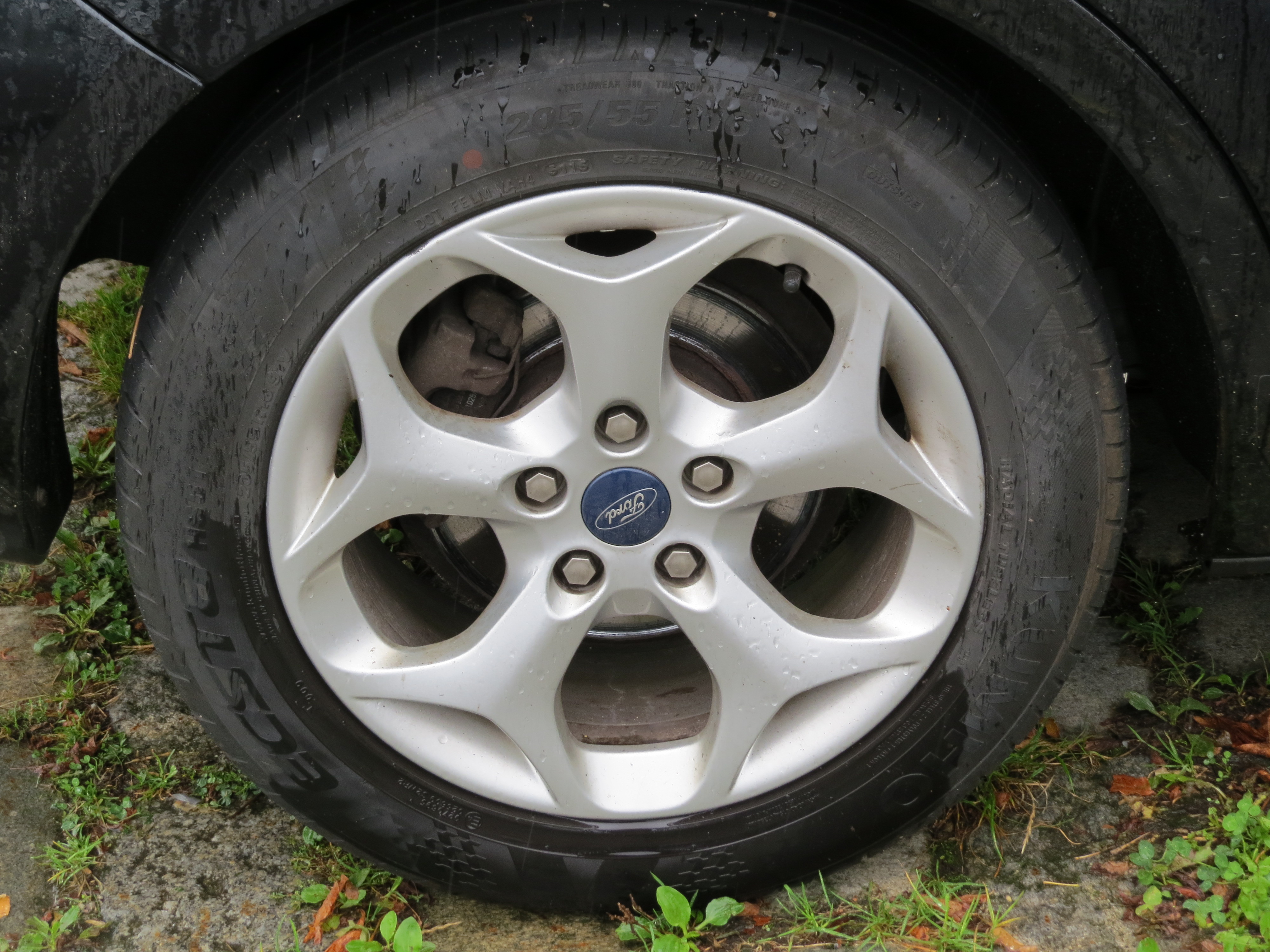 Kumho Ecsta HS51 205/55 R 16 tire at Bahnhof Melk, Austria